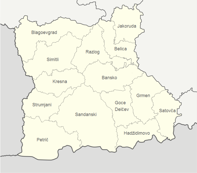 Croatian names on map of Blagoevgrad District (Bulgaria)